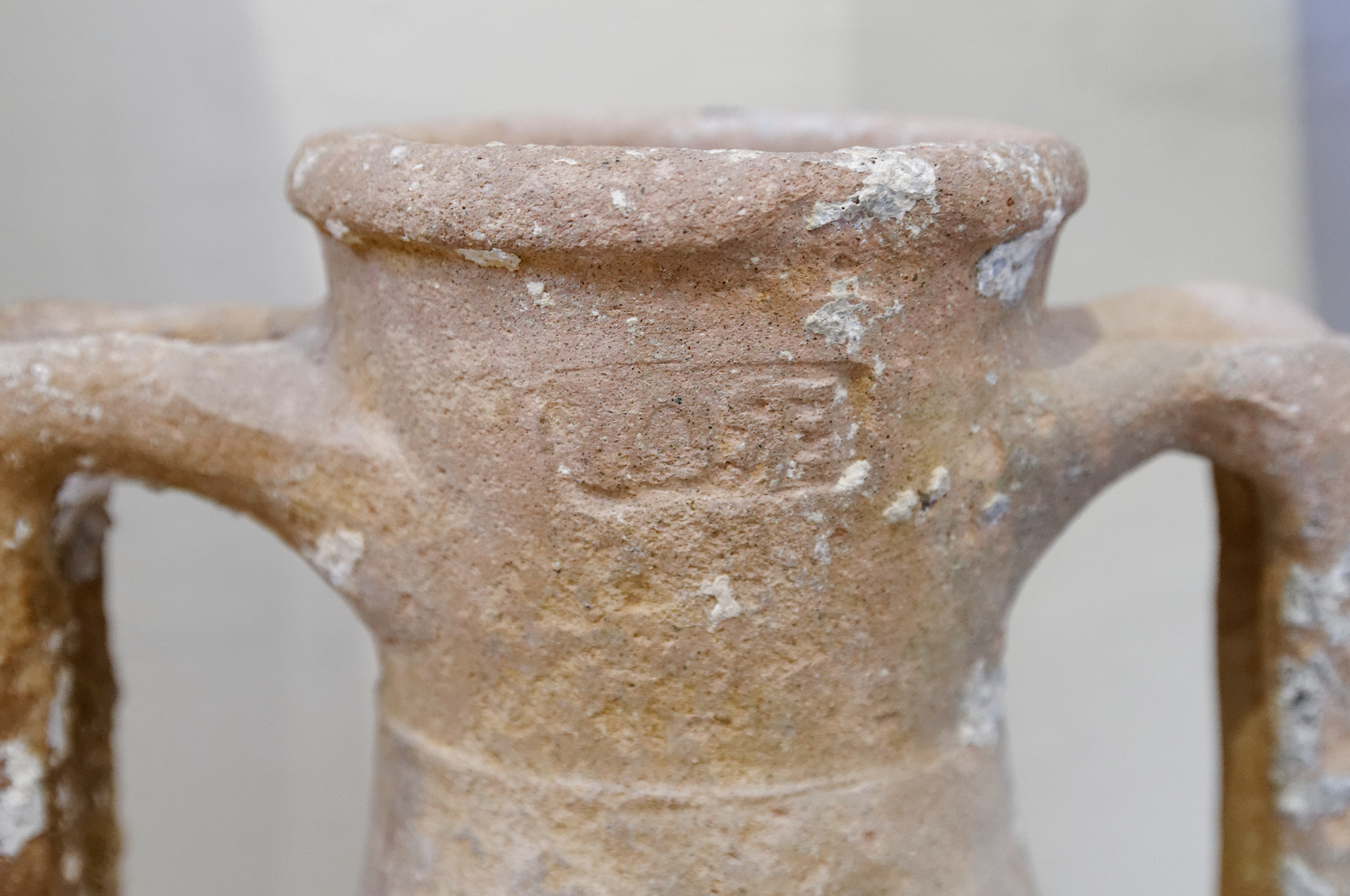 Potter's stamp on an Italic amphora used for the transportation of wine.